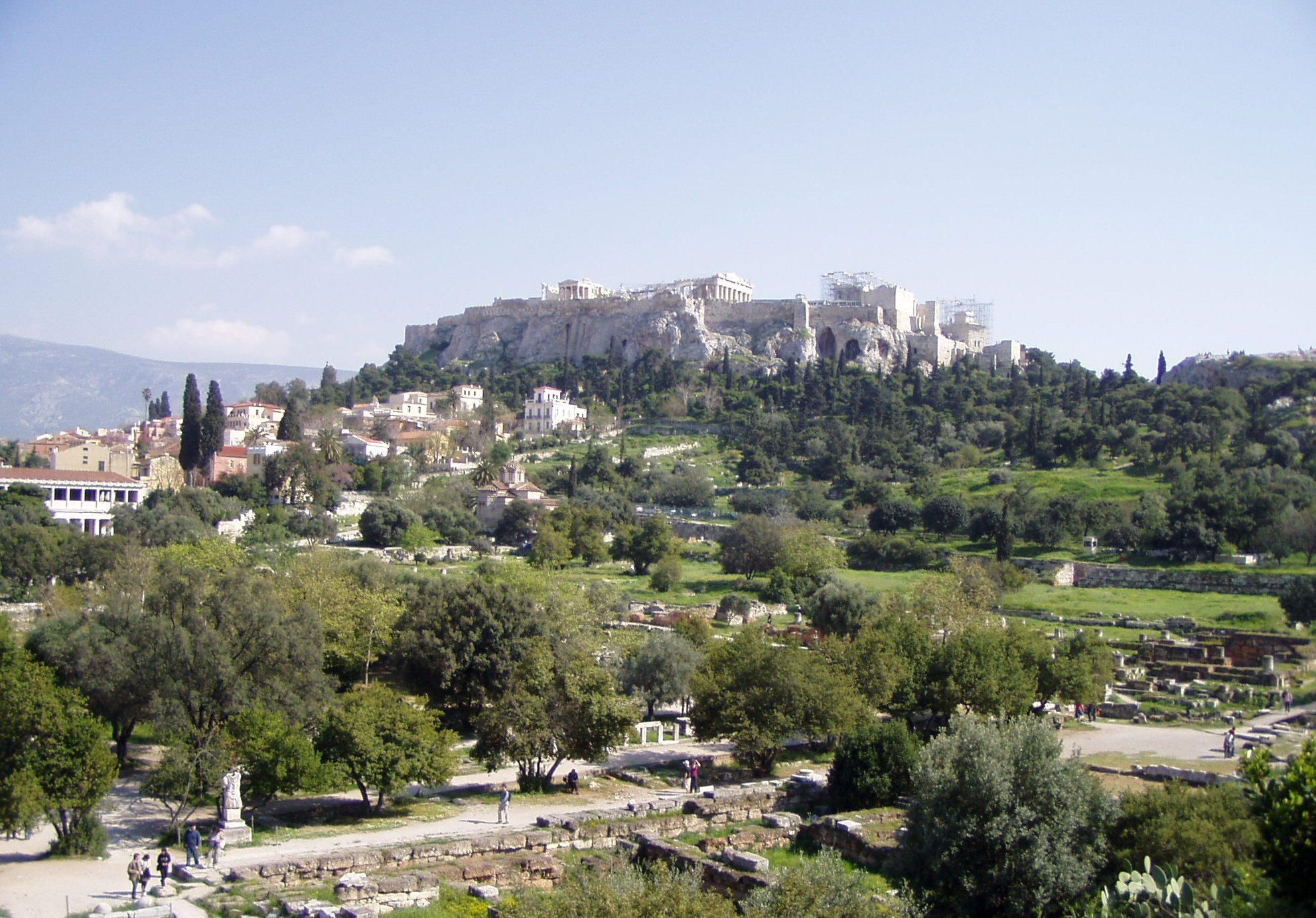 This is the Ancient Agora of Athens.